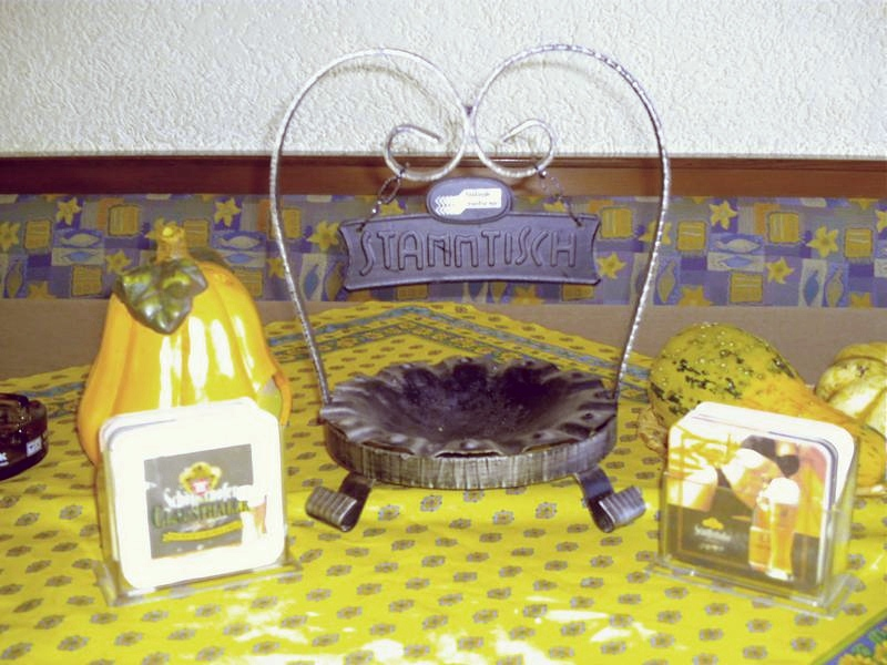 Typical ashtray with a sign claiming a table to be a tertulia (Stammtisch) in Germany.